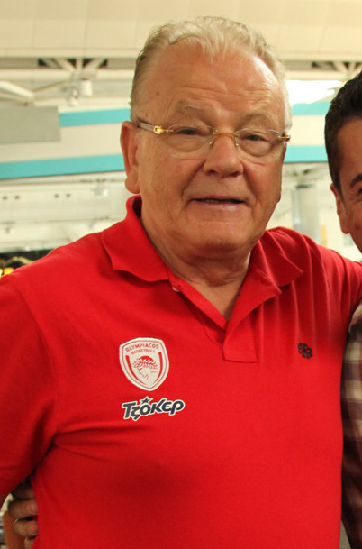 Dušan Ivković and Željko Joksimović